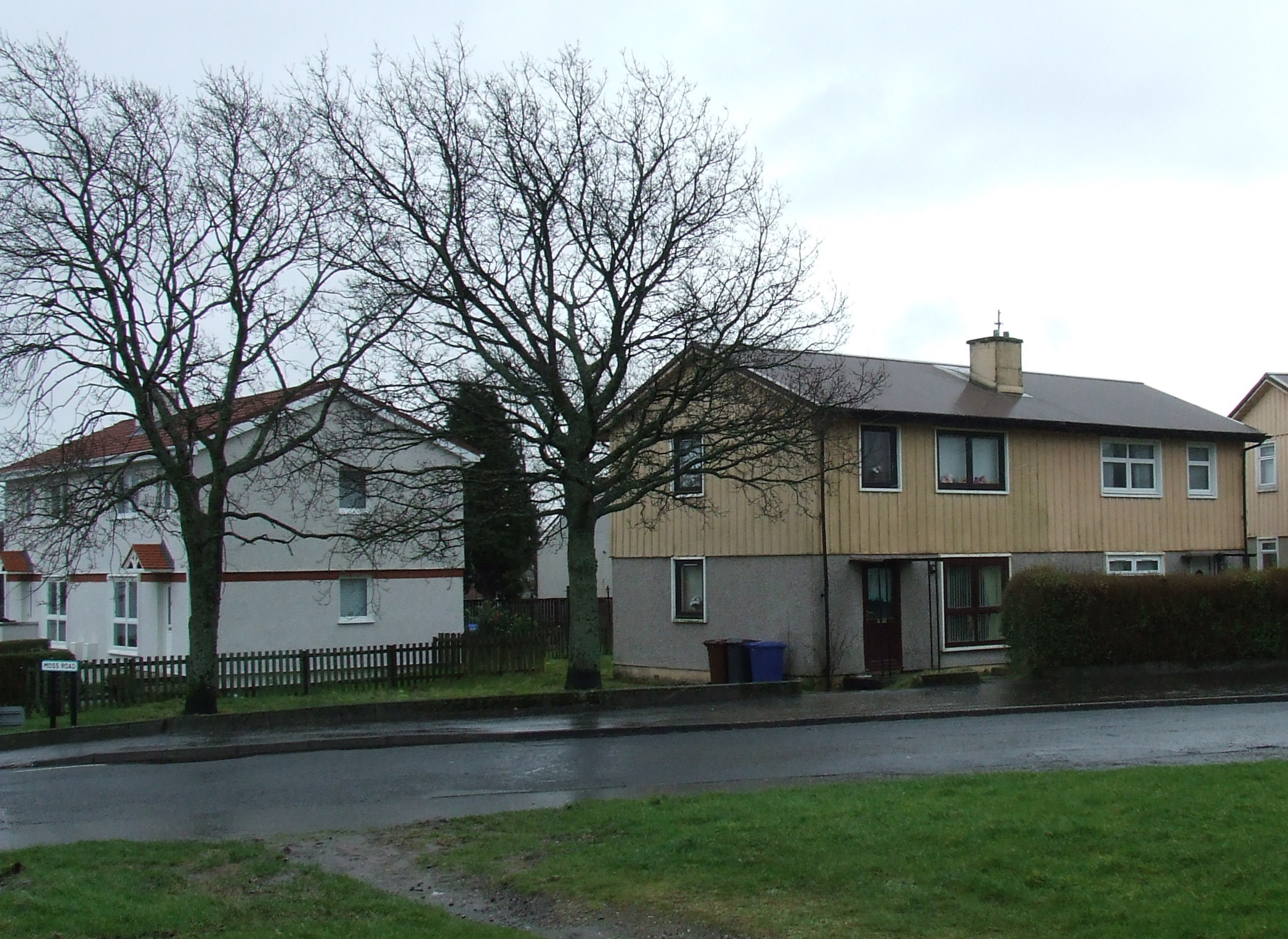 BISF Houses at Bardrainney There are many BISF (British Iron & Steel Federation) houses in the Bardrainney area, most of which are in the process of being renovated. The white block on the left is on Moss Road and has been renovated, the block on the right is on Bardrainney Avenue and has not been renovated. See this for more information regarding BISF houses.